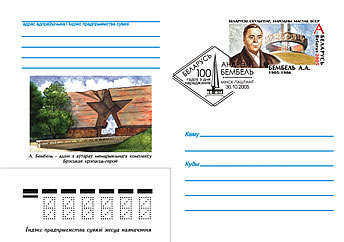 Stamp of Belarus 2005